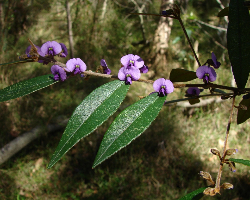 Pointed-leaved Hovea Upright shrub 2-5m tall, in open shady eucalypt forest. Notice: Branches and flower calyx have dense rusty hear Australian native. This plant was photographed in Chapel Hill forest reserve (Brisbane)